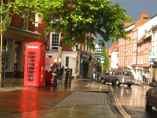 Hockley Nottingham